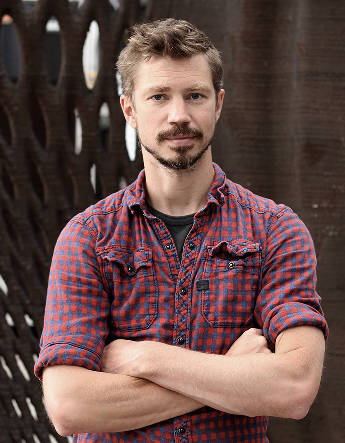 portrait of Joris Laarman 2017